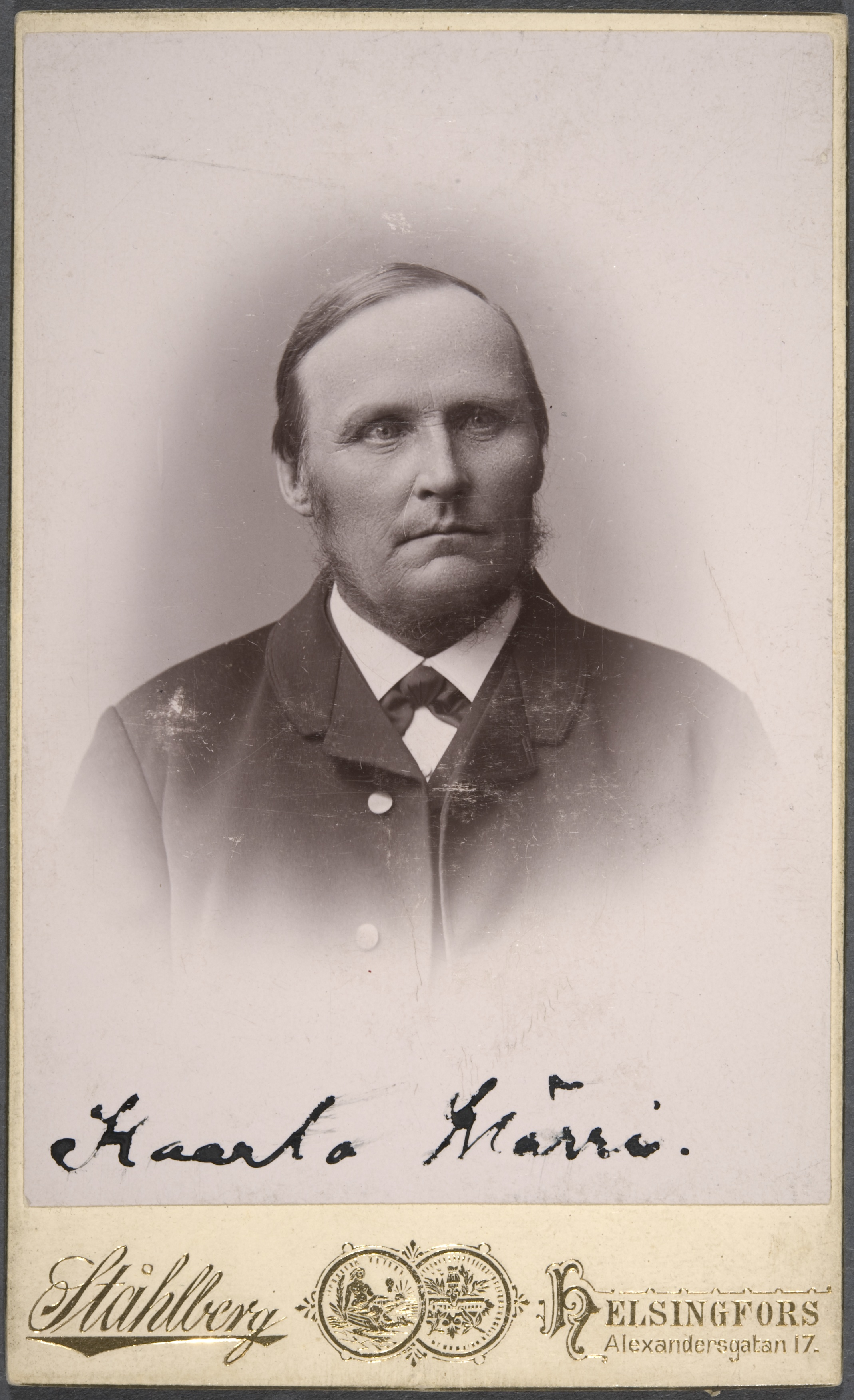 Photograph of the Finnish politician Kaarlo Wärri (1839–1923).